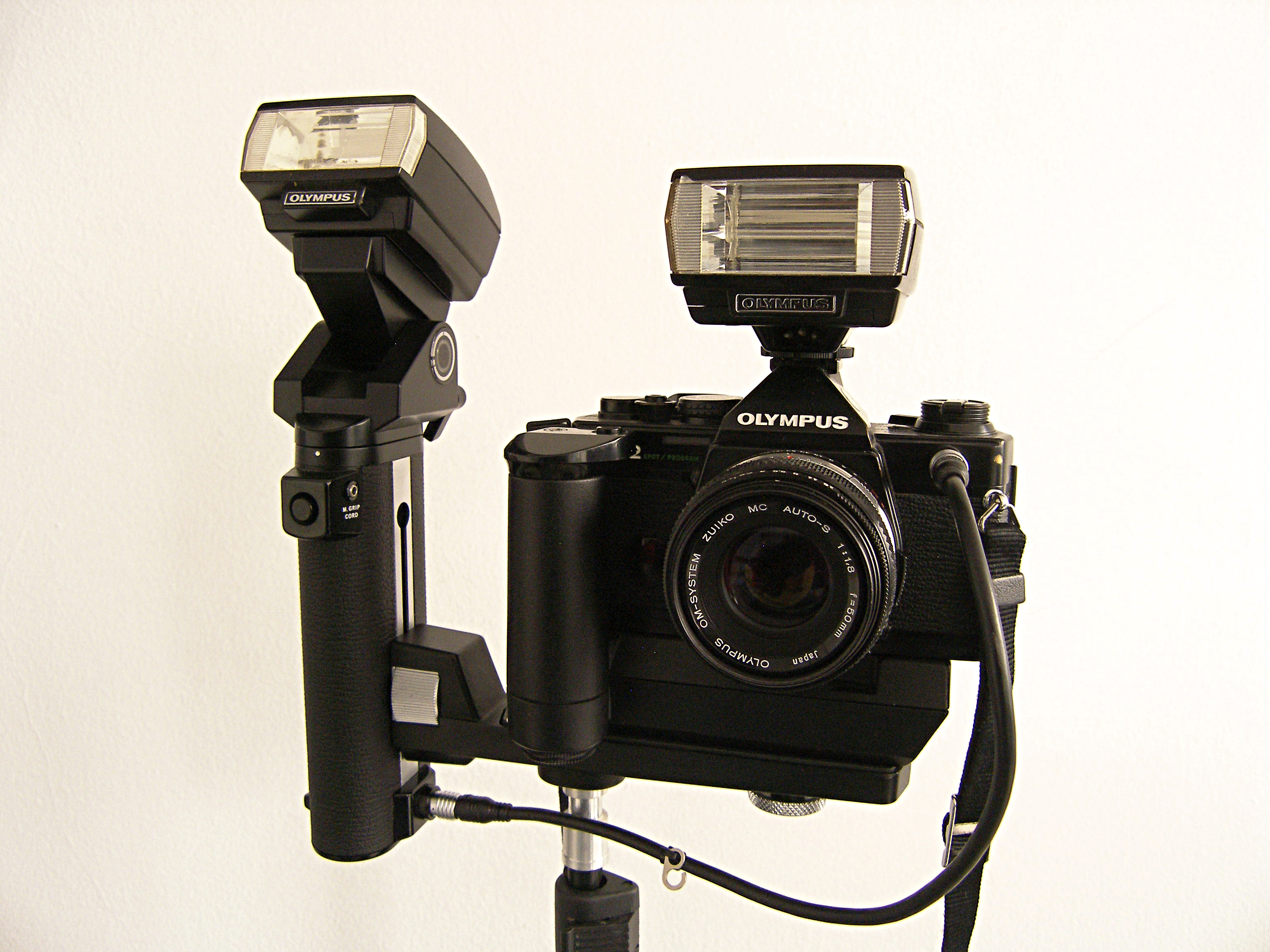 Olympus OM2 SP + Power Bounce Grip 2 + 2 T20 TTL Flash